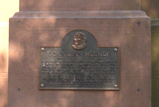 Looking west from Court Street at plaque on Old St Paul's on a sunny morning.